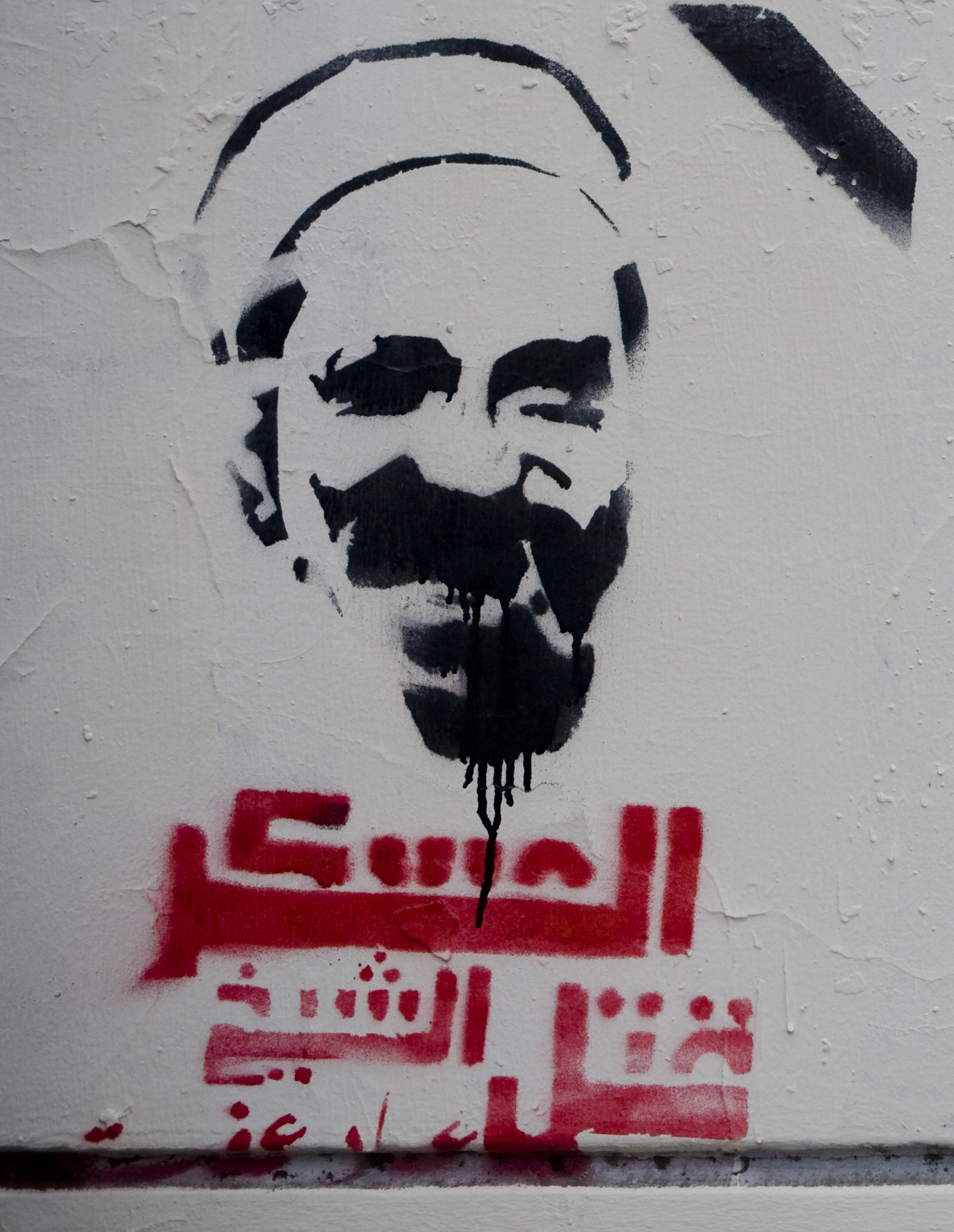 Graffiti in Abdel Salam Aref Street